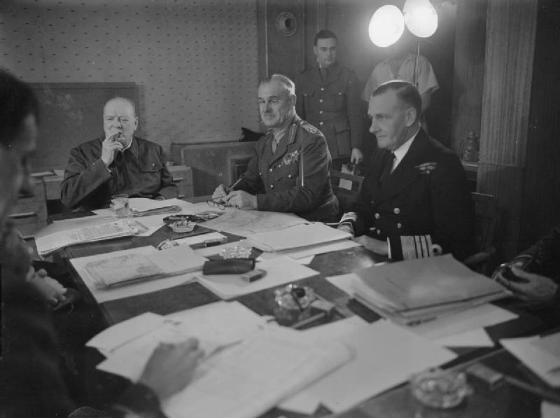 Aboard the SS QUEEN MARY, around a conference table sit the Prime Minister, Winston Churchill, Field Marshal Sir Archibald P Wavell GCB, CMG, MC, ADC, and Admiral Sir James Somerville, KCB, KBE, DSO.